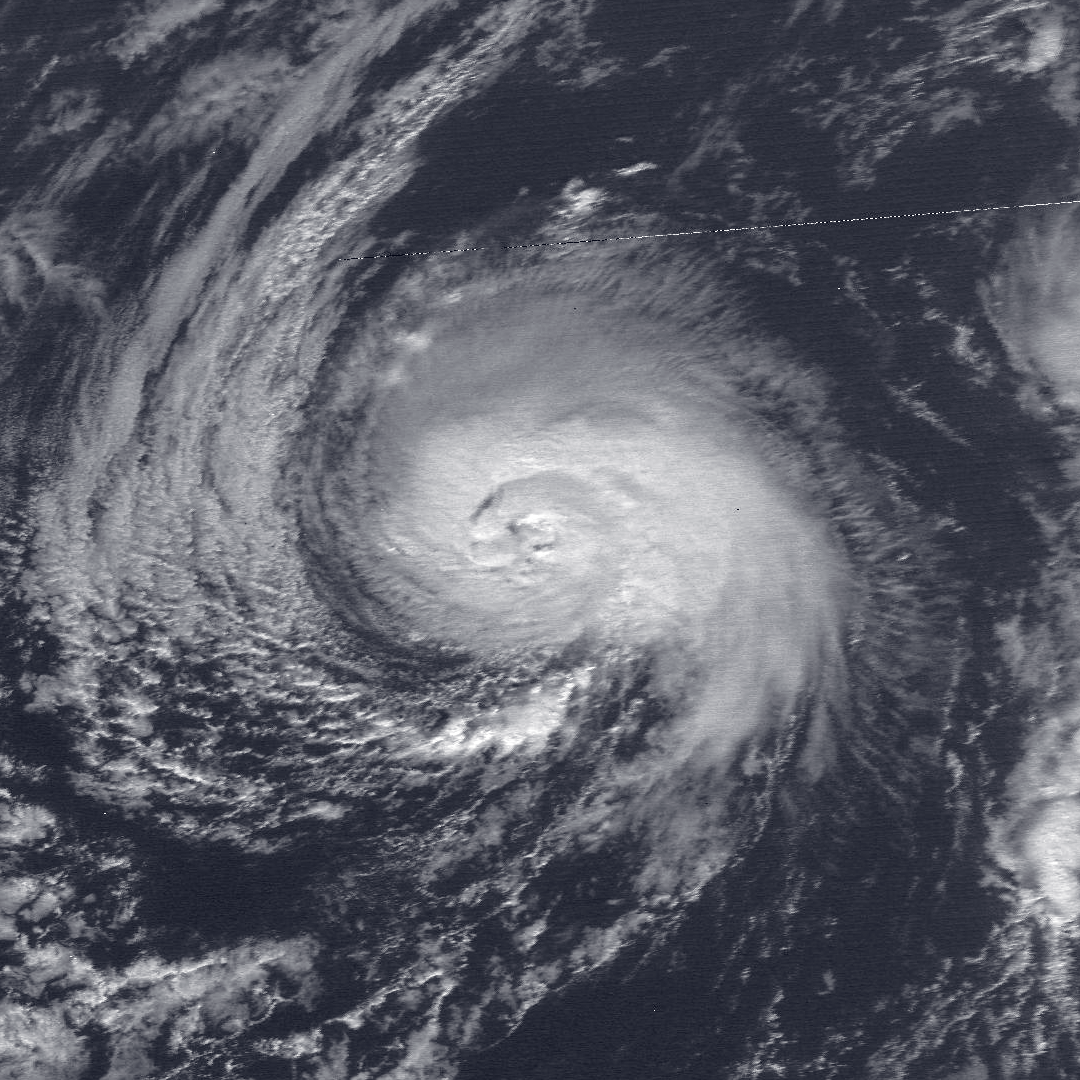 Hurricane Lili at peak intensity on December 21, 1984